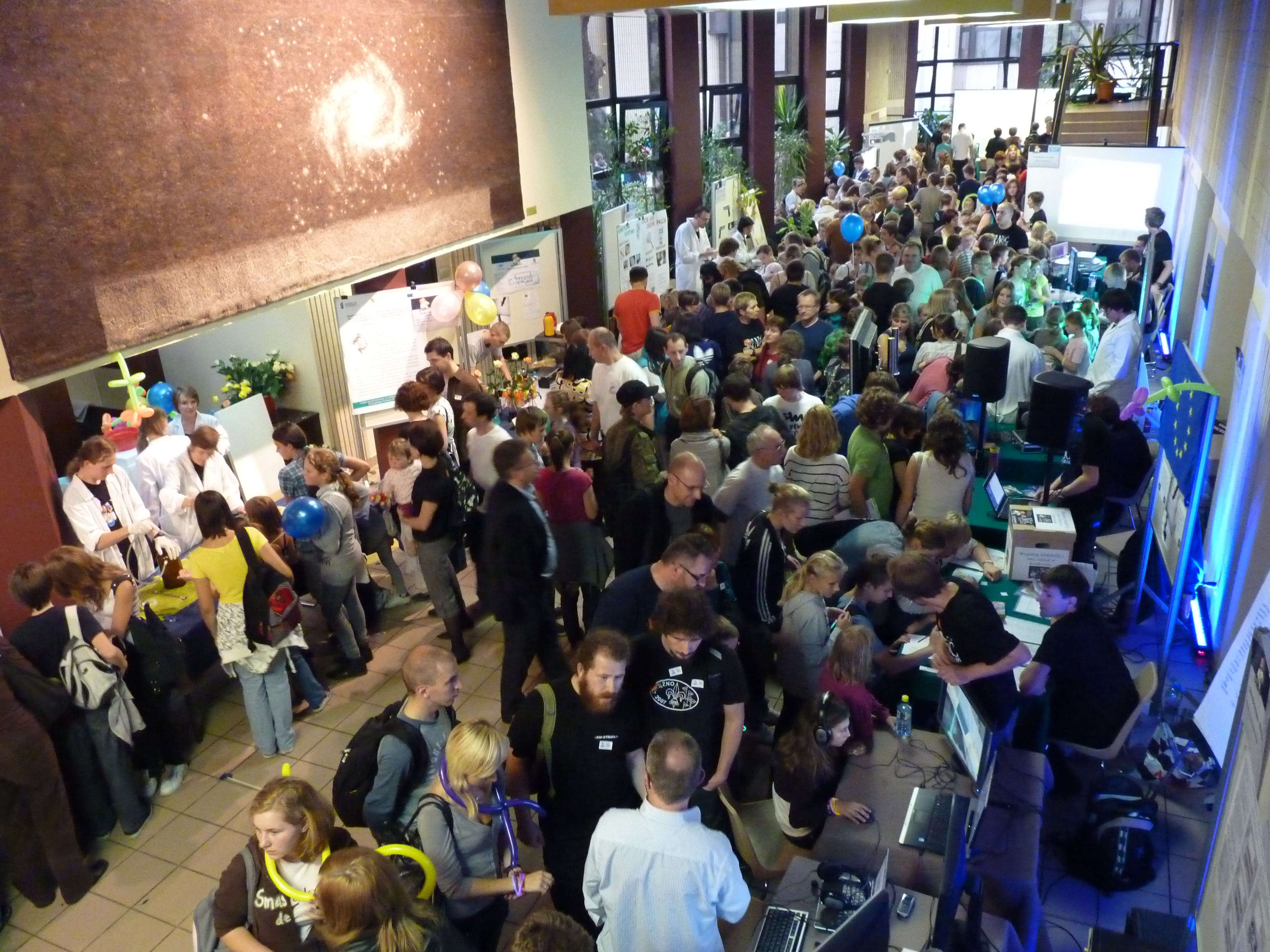 European Researchers Night at Institute of Bioorganic Chemistry Polish Academy of Sciences in Poznan.